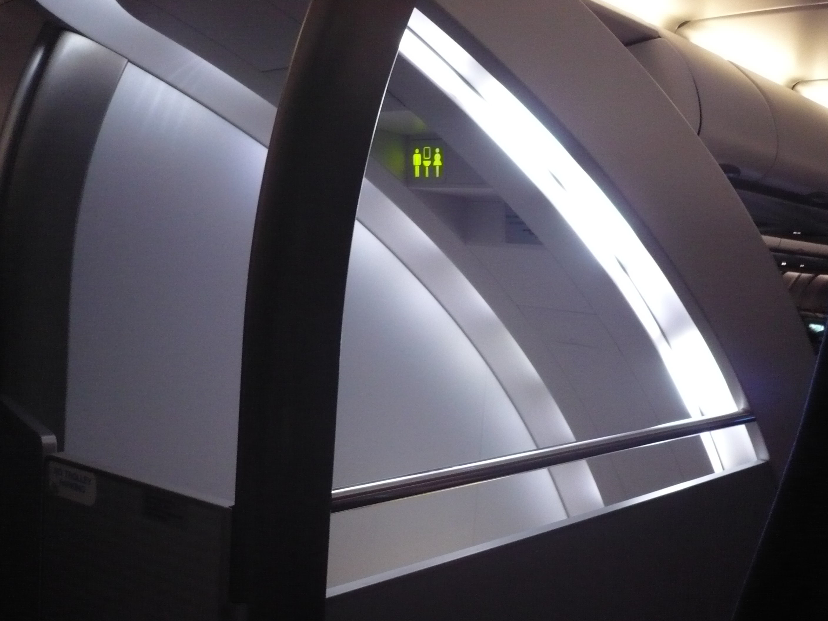 Stairs down to the toilet area in a Lufthansa Airbus A340-600